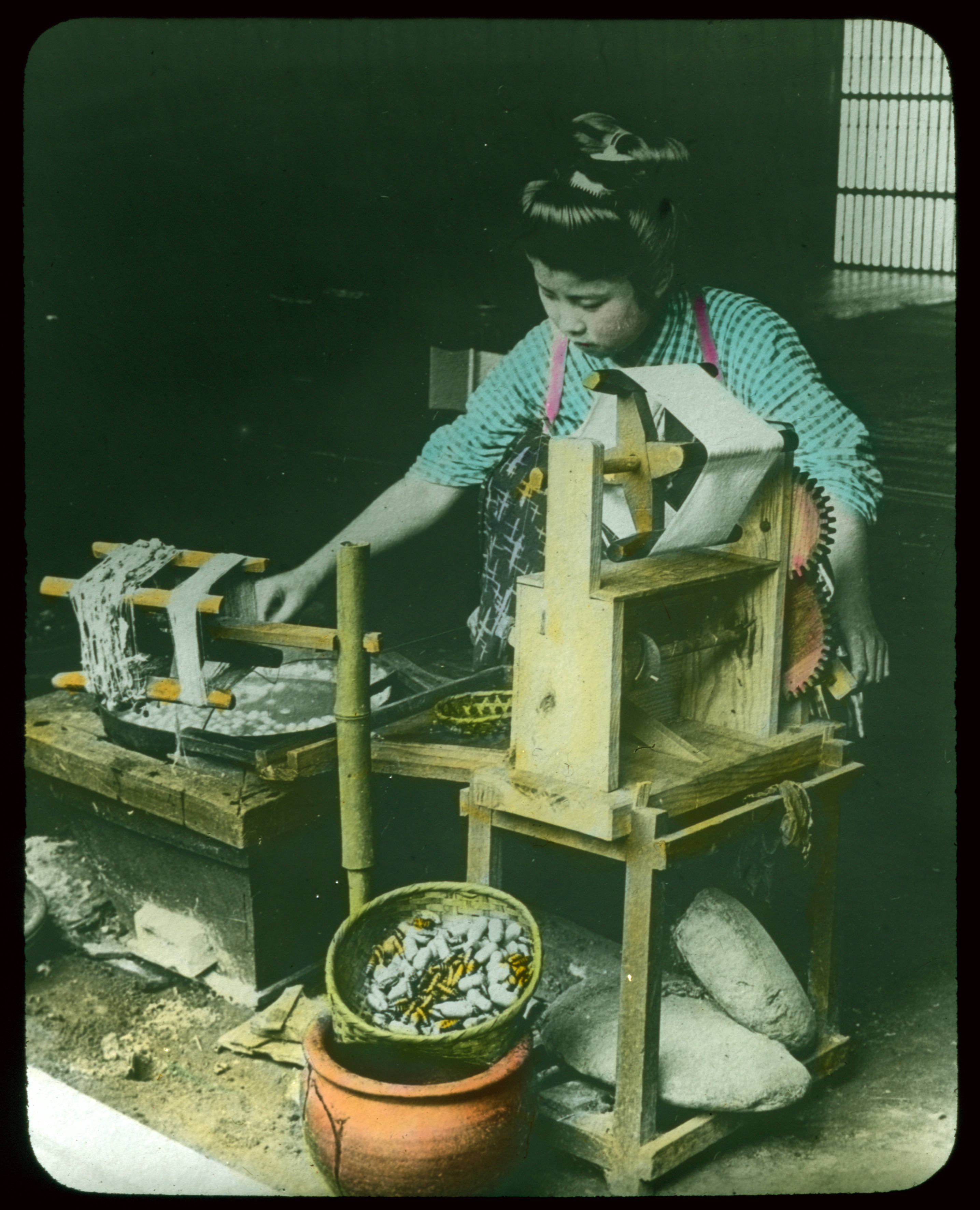 Item is a photographic glass-plate transparency; part of a set of colour-tinted transparencies depicting life in Japan ca. 1910, including scenery, street scenes, workers, farming, fishing, silk production, stone carvers, wood carvers, metal workers, potters, and artists.